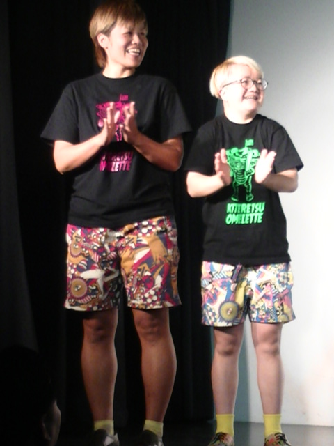 Kiteretsu Omelette (Comedy combi) 2019-12-26